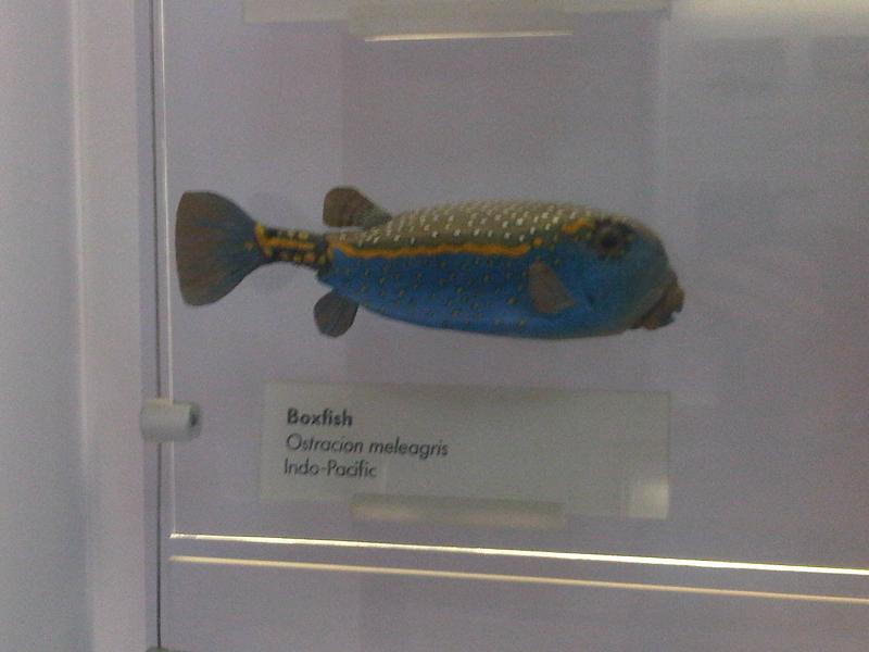 Whitespotted boxfish (Ostracion meleagris) at the Natural History Museum in London, England.